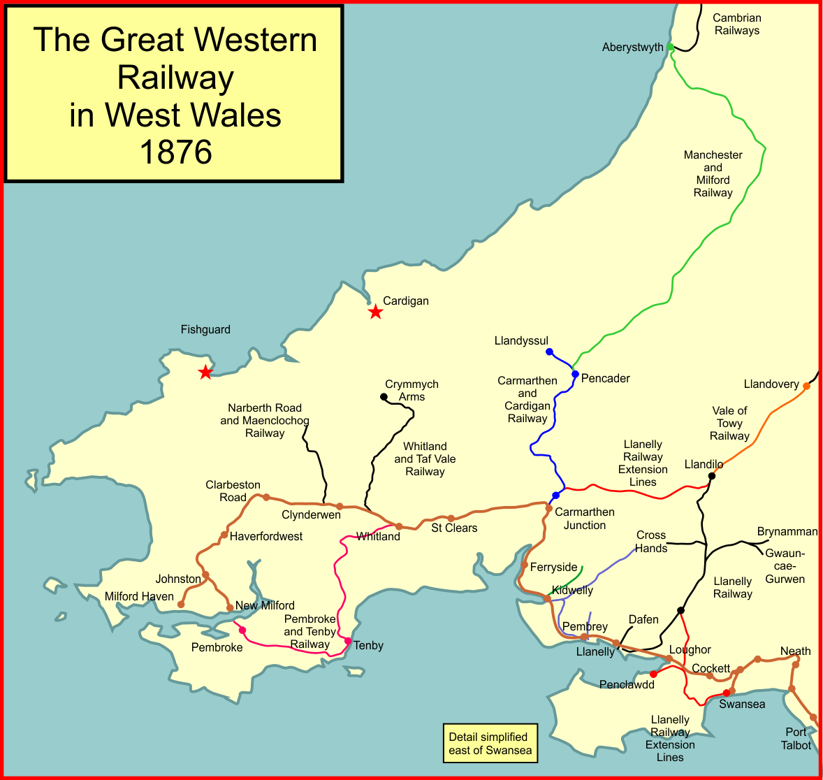 Railway lines in West Wales, UK, in 1876